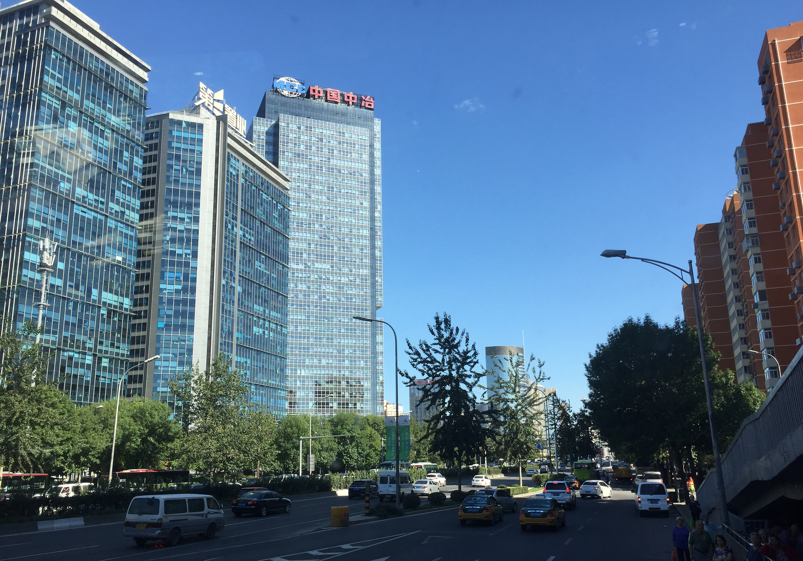 Here in Sanyuanqiao stands the headquarters of MCC.